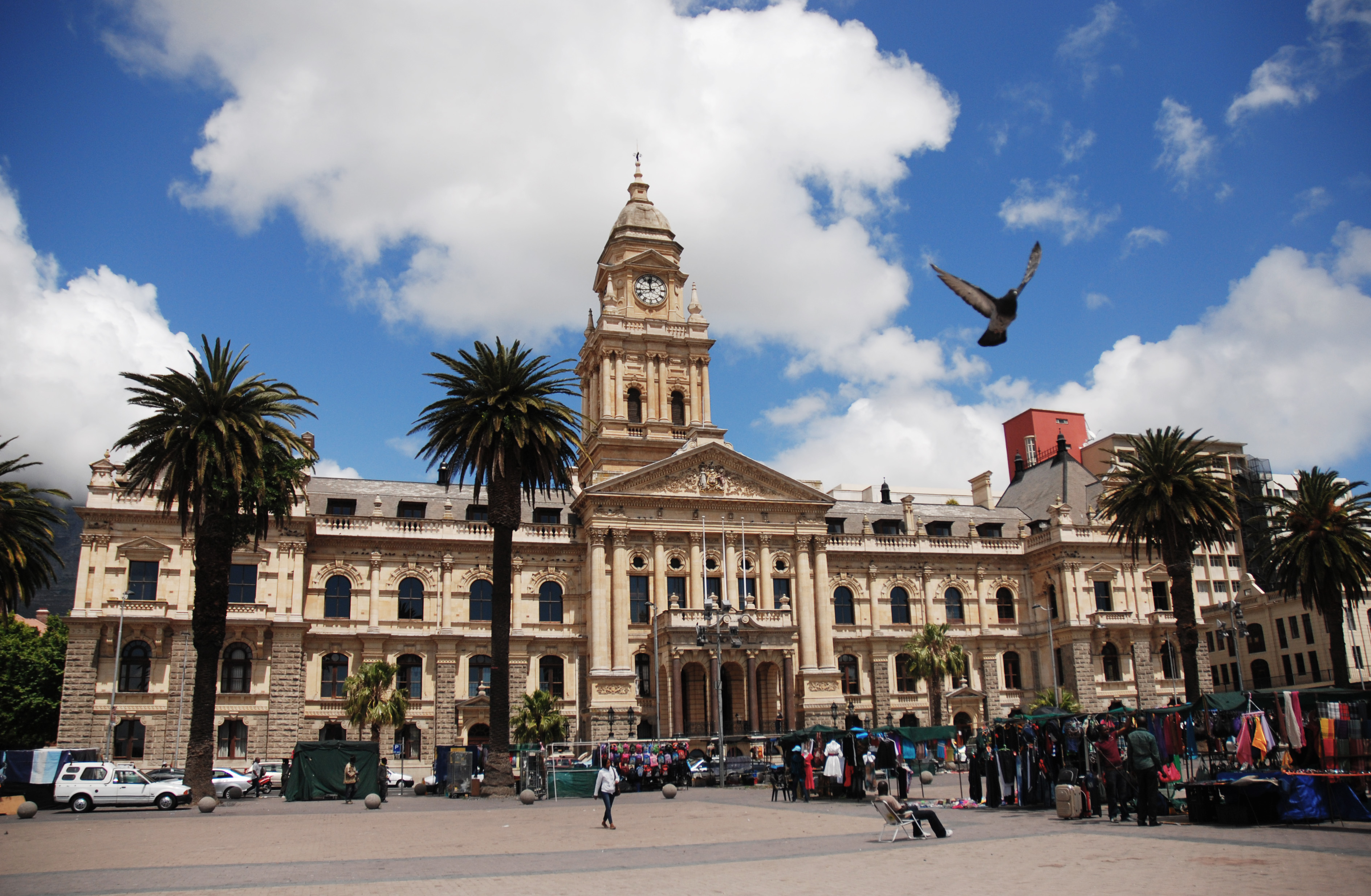 The City Hall, Cape Town. From its balcony Nelson Mandela made his first public speech after being released. This media shows a South African Protected Site with SAHRA file reference 9/2/018/0115.